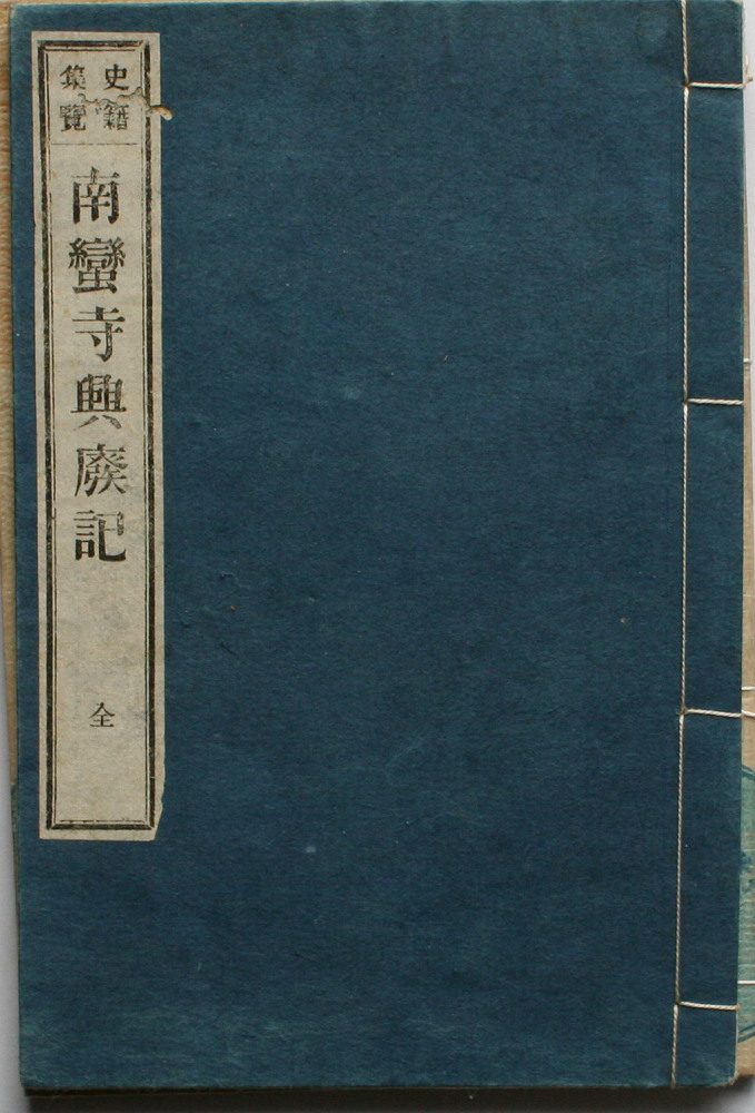 Rise and Fall of Christian Church in medieval Japan, published in 1885, Tokyo, Japan